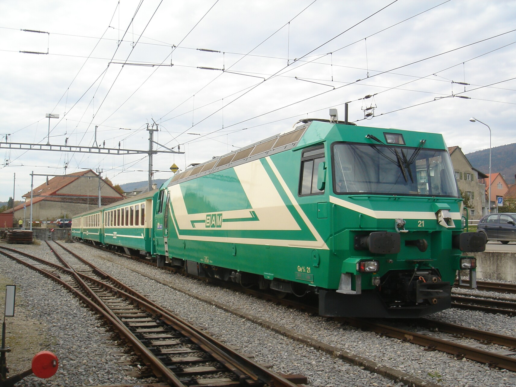 MBC locomotive Ge 4/4 21 with coaches B 61, 63, 62 stored in Bière (Switzerland) station